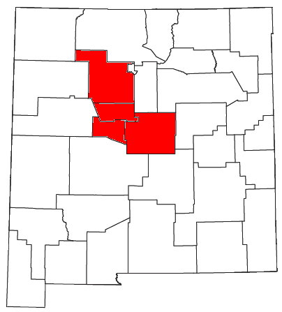 Locator map of the Albuquerque Metropolitan Statistical Area in the north central part of the U.S. state of New Mexico.